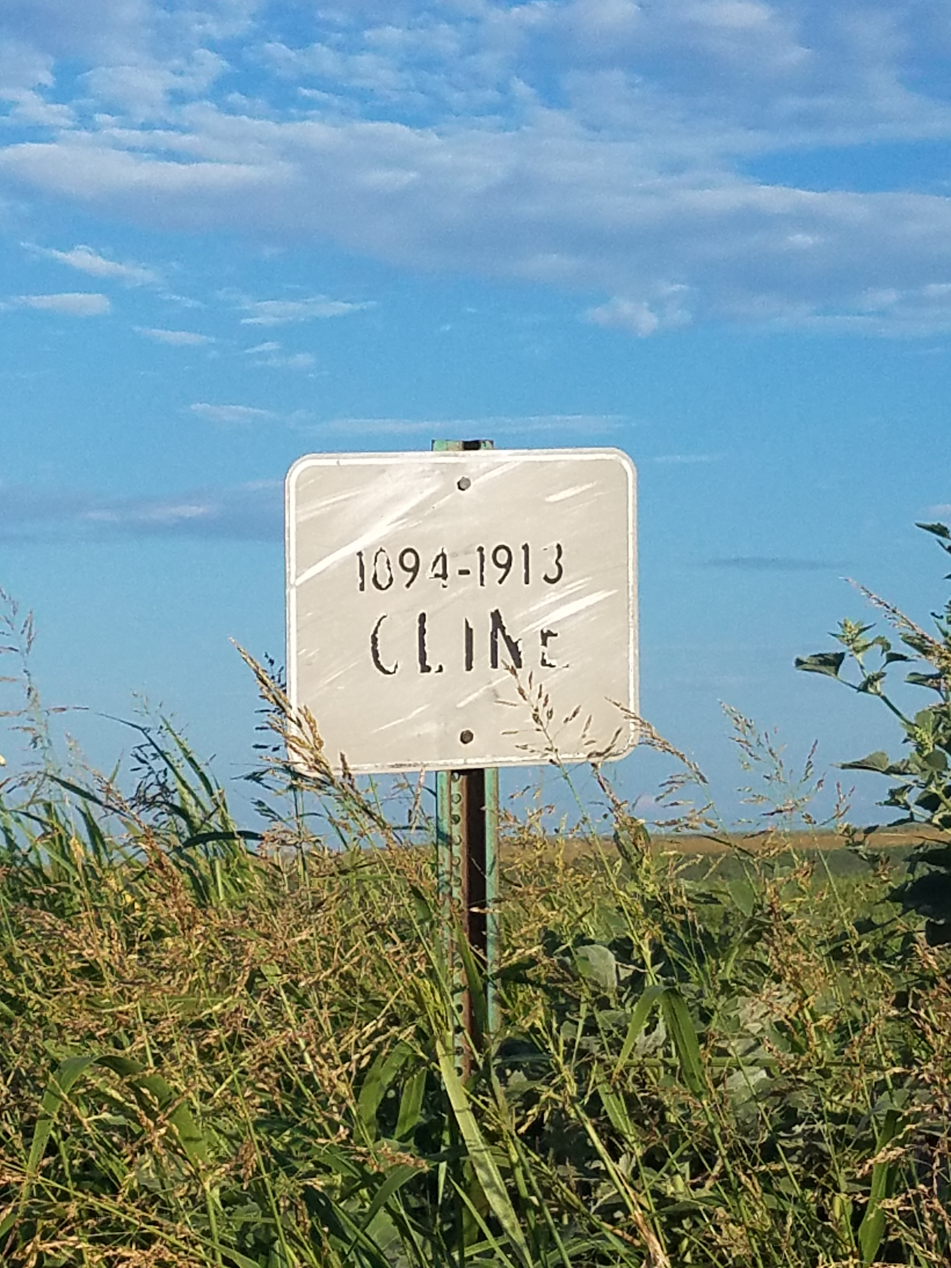 I took this photo of the sign of where Cline used to stand. It says "1894 - 1913 CLINE"